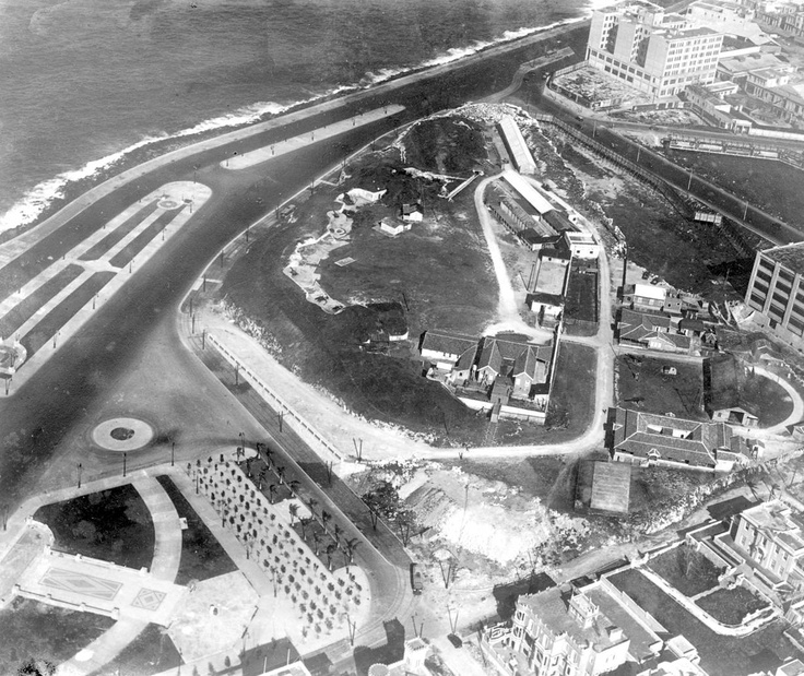 Battery of Santa Clara_areal. Havana, Cuba